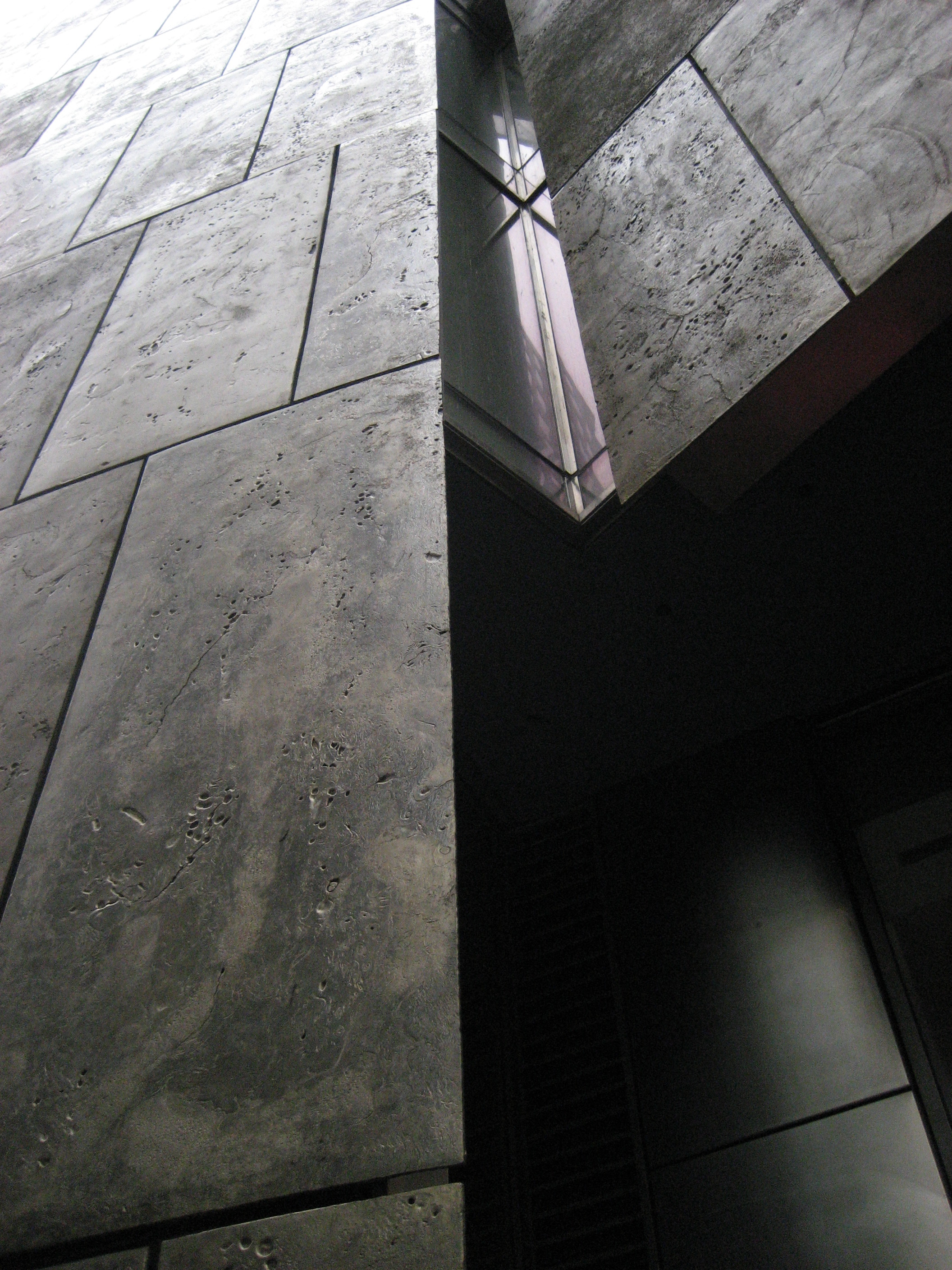 Copper facade of the former Midtown building of the American Folk Art Museum on 53rd Street — designed by Tod Williams & Billie Tsien, built in 2001, closed in 2011. Demolished by MOMA for expansion in 2015. The American Folk Art Museum is now at 2 Lincoln Center, Upper West Side, NYC. Credits I took this image on 10/12/06.